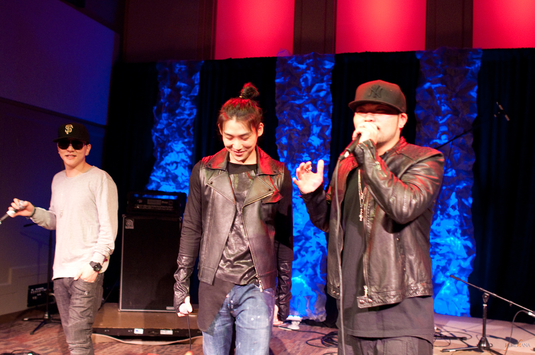 Aziatix performing at The Irenic, San Diego, April 4, 2012.